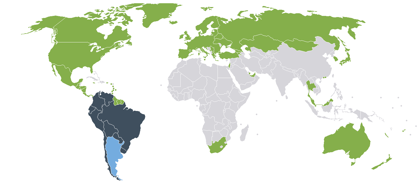 Visa policy of Argentina Argentina Visa-free Entry possible with ID card only